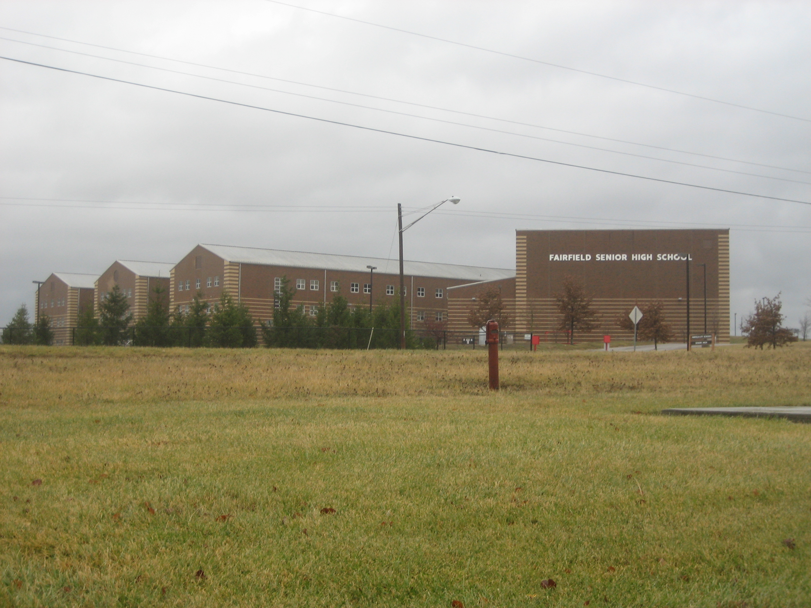 Picture of Fairfield Senior High School building, located in Fairfield, OH. This picture was taken in December 2008.